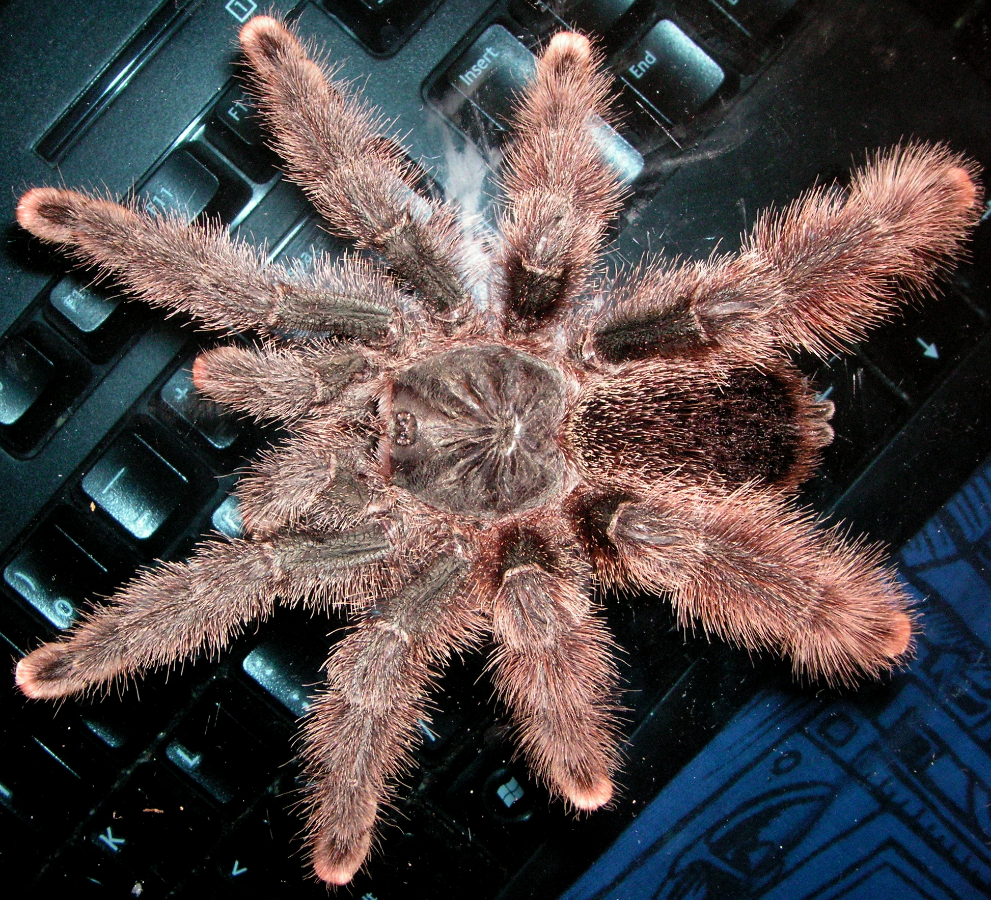 Avicularia Metallica